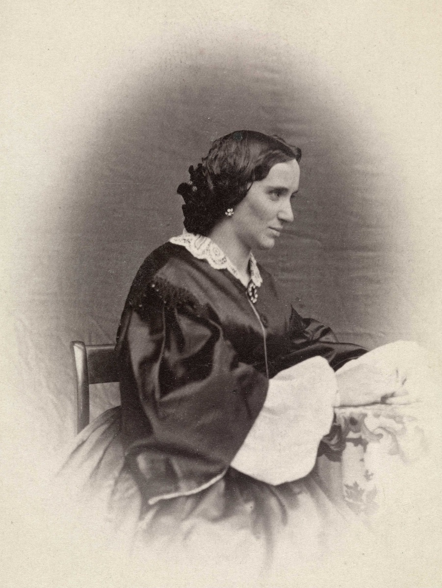 Actress Louise Brun at Det norske Theater in Bergen and at Christiania Theater in a photo from mid or late 1850ies